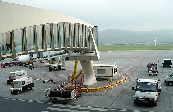 Finger on the Bilbao Airport, Spain.Finger en el aeropuerto de La Paloma, Bilbao